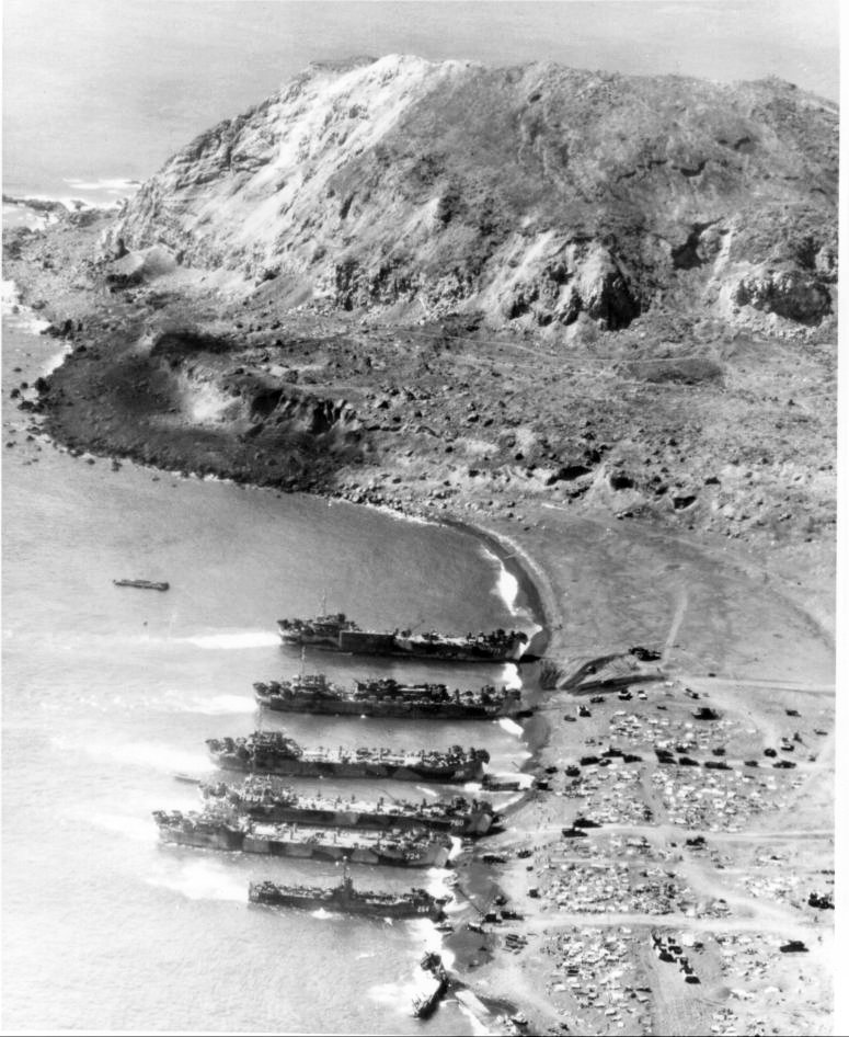 From top to bottom; USS LST-779, USS LST-808, USS LST-788, USS LST-760, USS LST-724 and USS LSM-264 beached at the foot of Mount Suribachi, Iwo Jima, 25 February 1945.